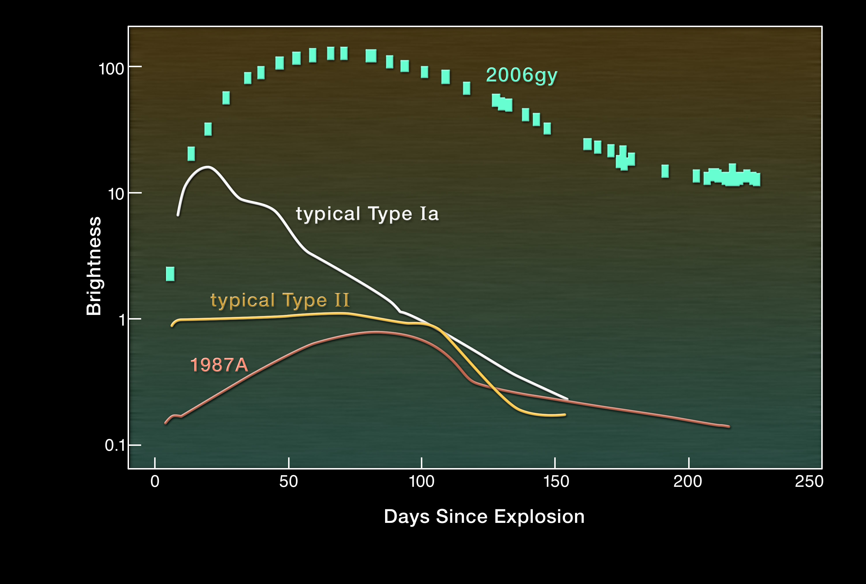 Original caption: "This graph shows the intrinsic brightness of SN 2006gy and how it changes over time. The graphic also demonstrates how much brighter SN 2006gy is when compared to typical examples of the two main supernova classes. Type Ia supernovas involve the thermonuclear explosion of a white dwarf and type II supernovas are the collapse of a massive star. The famous supernova SN 1987A is also shown. Not only does SN 2006gy get much brighter than other supernovas but it stays very bright for much longer."